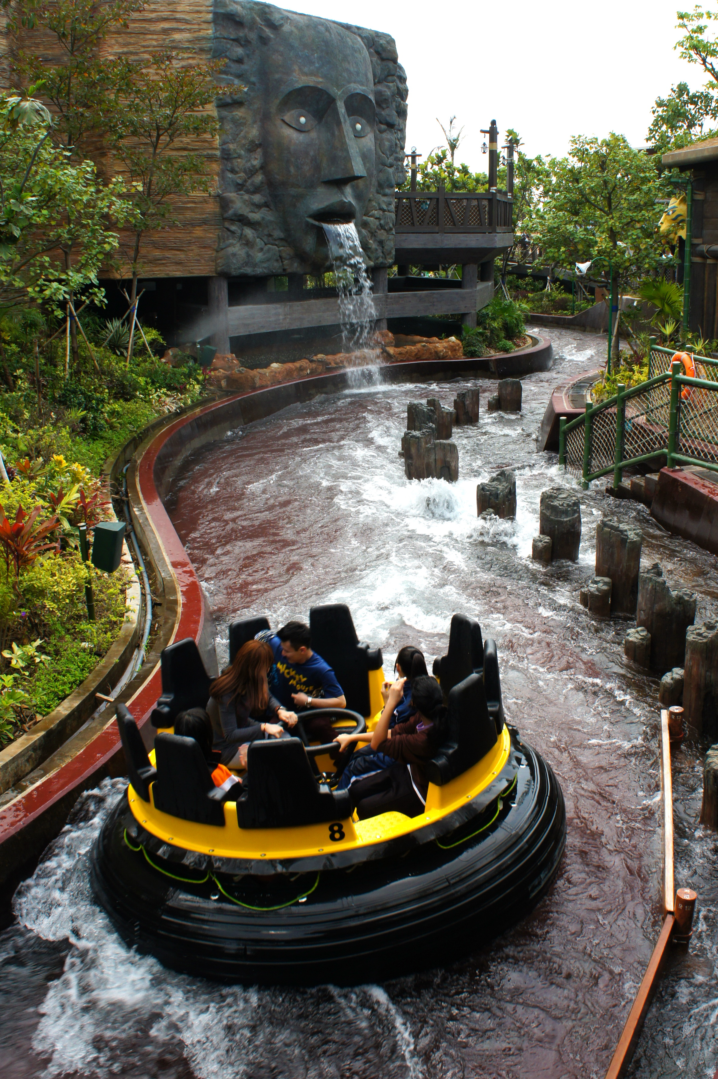 The Rapids, Rainforest, Ocean Park, Hong Kong.